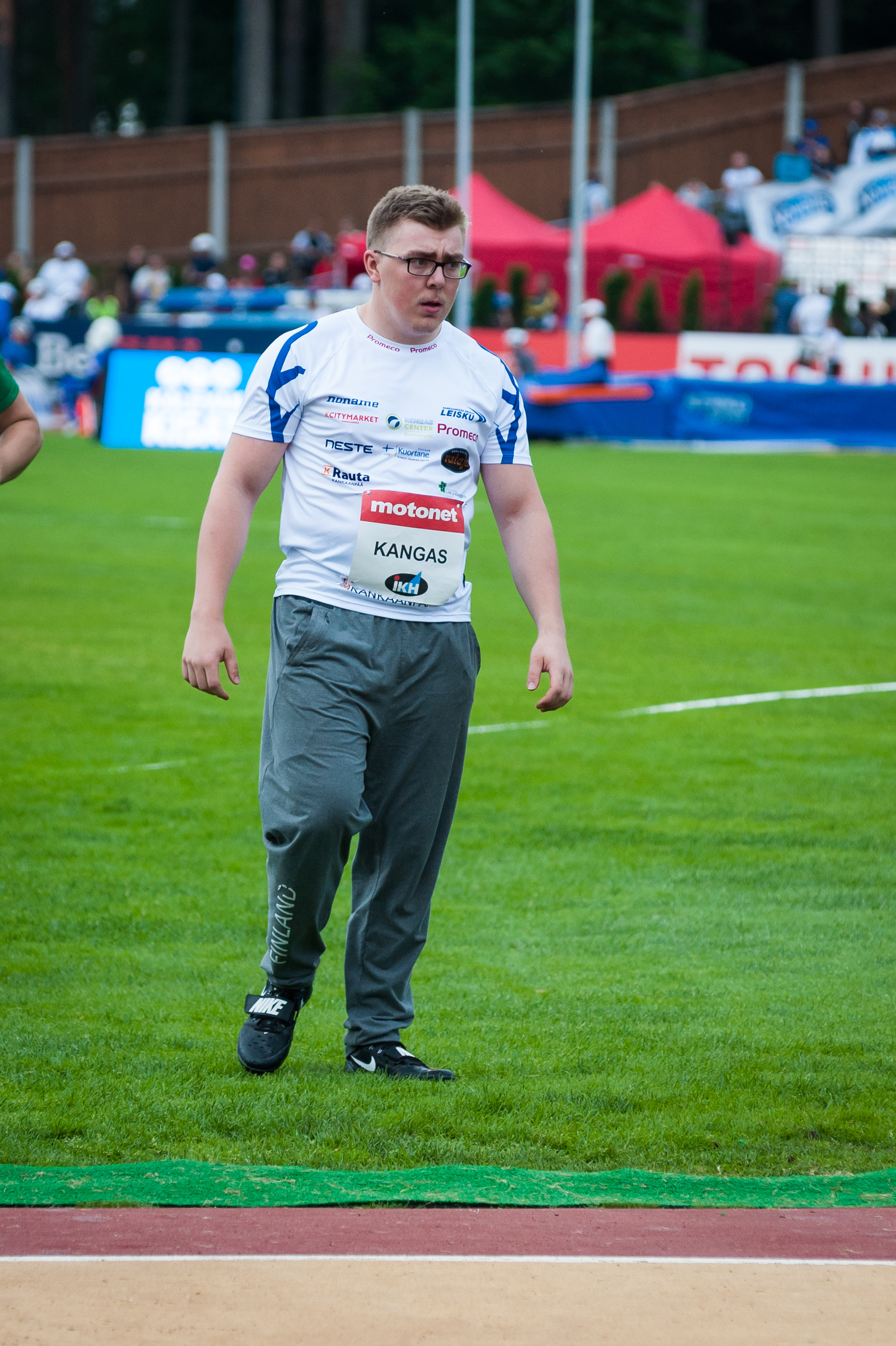 Men's hammer throw competition at the 2018 Kalevan Kisat, the Finnish championships in athletics, in Jyväskylä, Finland.